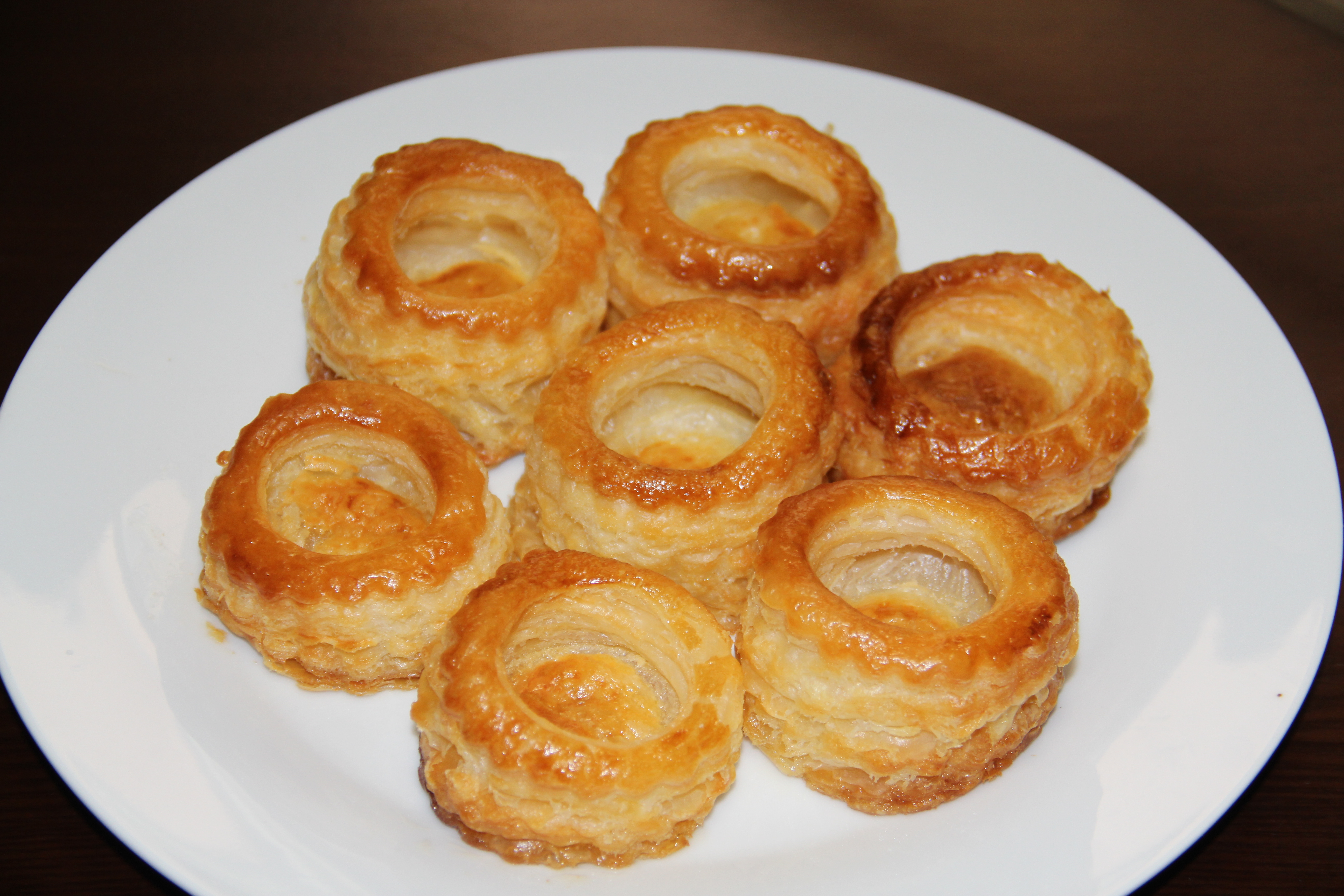 Making Vol-au-vent